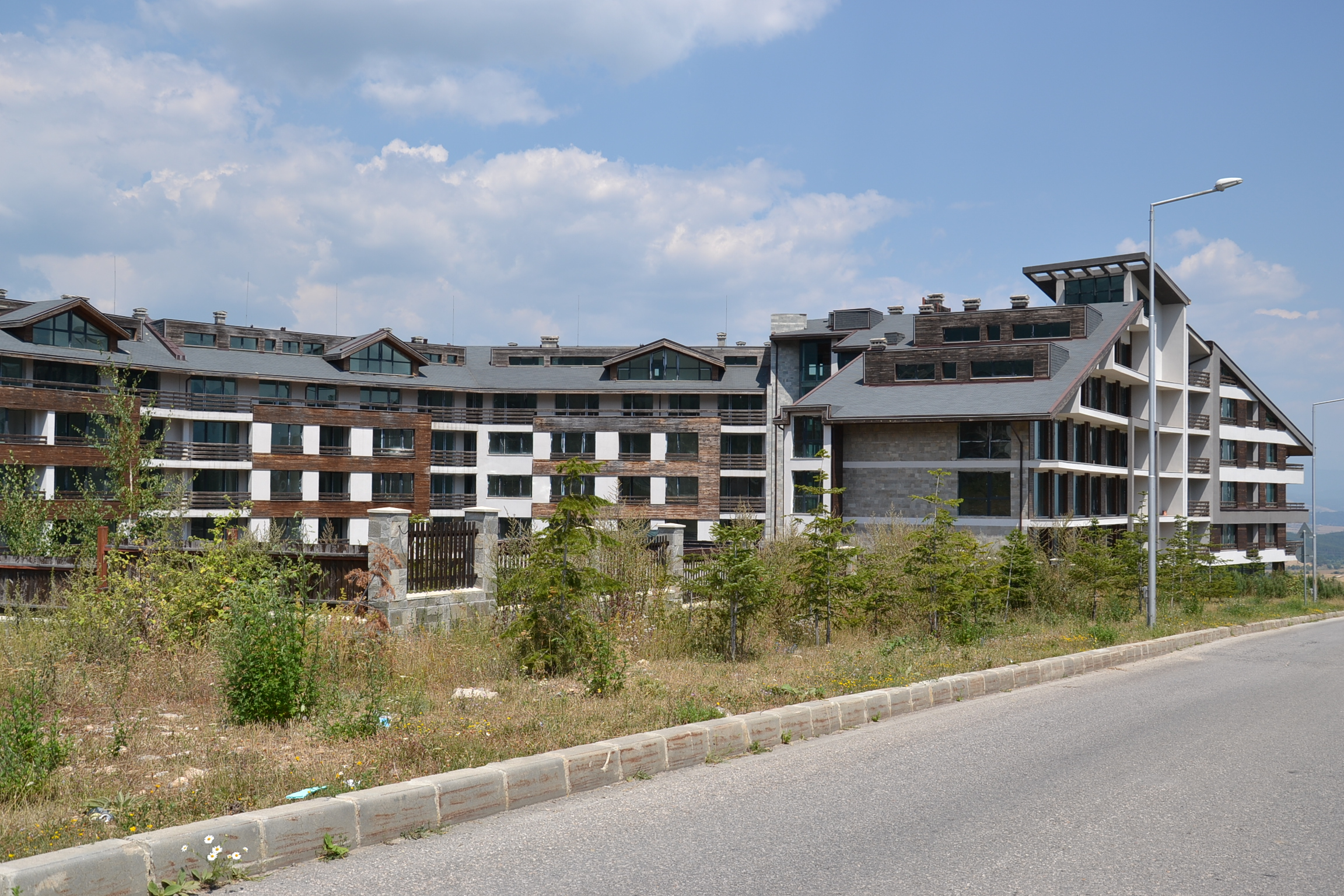 Bansko (Банско), Bulgaria - abandoned hotels